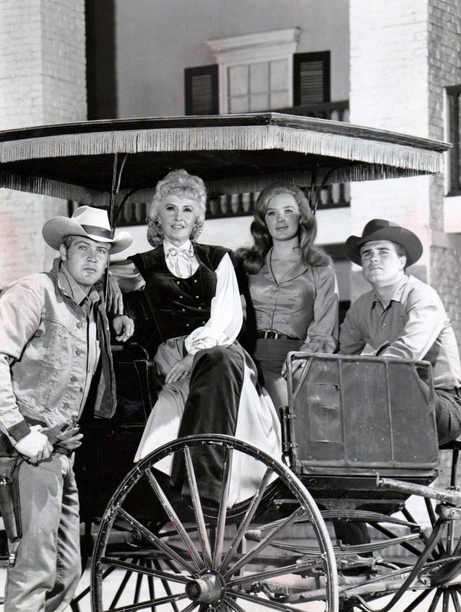 Cast photo from the television program The Big Valley. From left: Lee Majors (Heath Barkley), Barbara Stanwyck (Victoria Barkley), Linda Evans (Audra Barkley), Charles Briles (Eugene Barkley). Briles' character appeared only a few times in the first season and then was written out.